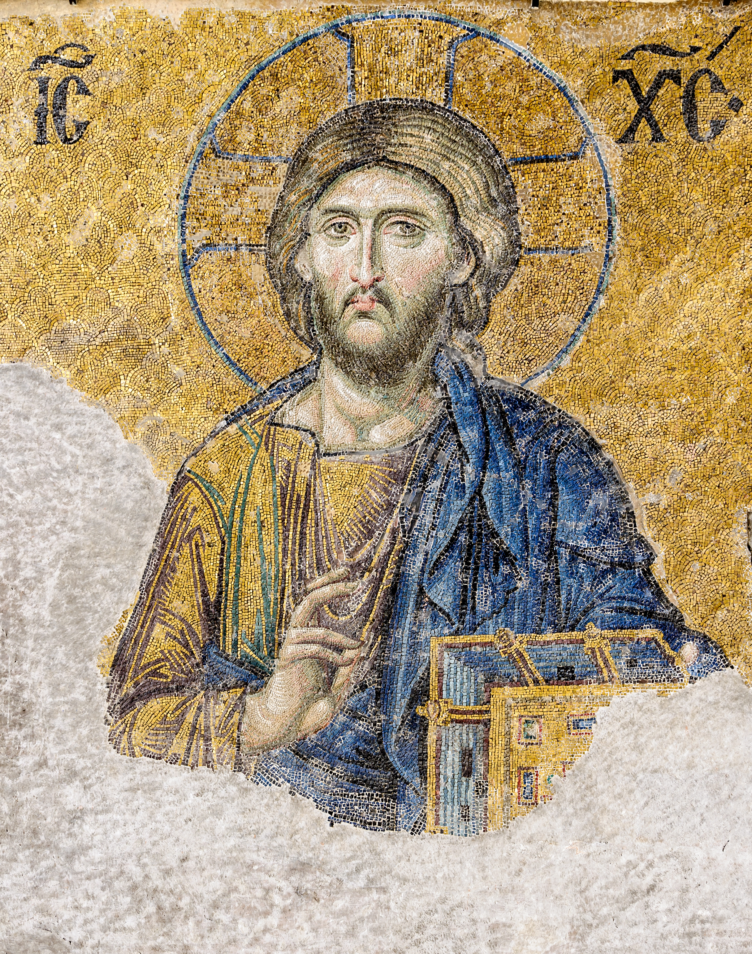 The Christ Pantocrator of the Deesis mosaic (13th-century) in Hagia Sophia (Istanbul, Turkey)